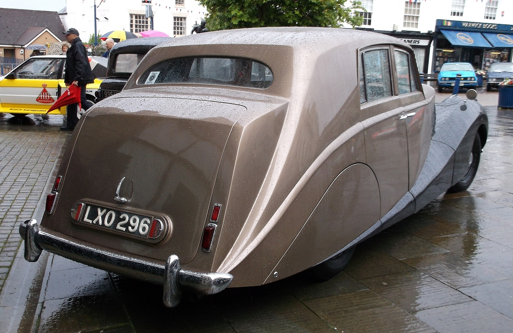 1950 Daimler 2½-litre (DVLA) manufactured 1950, 2522 cc Retro Warwick 2014